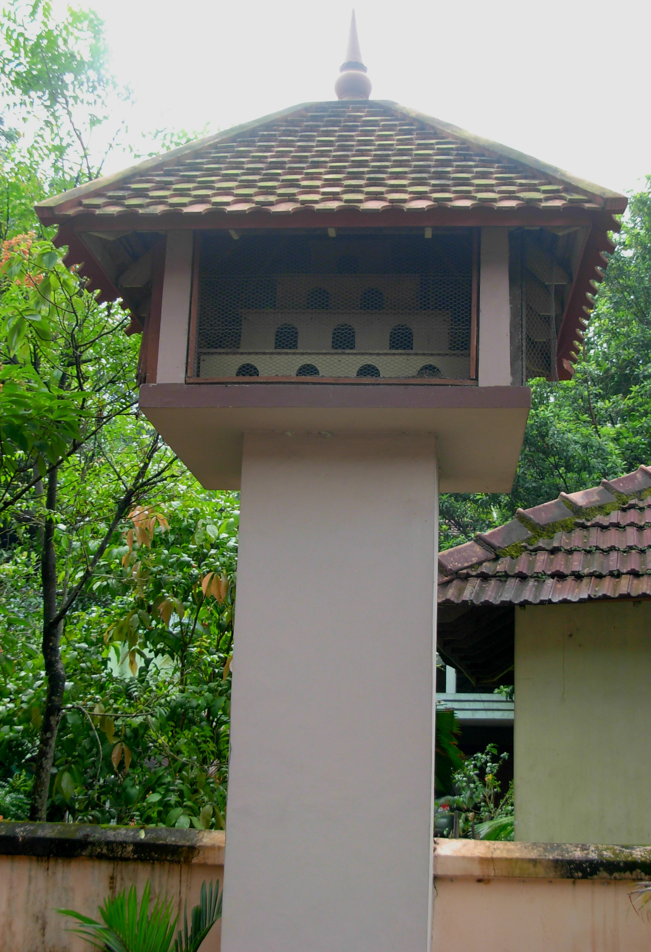 A nest made for Doves